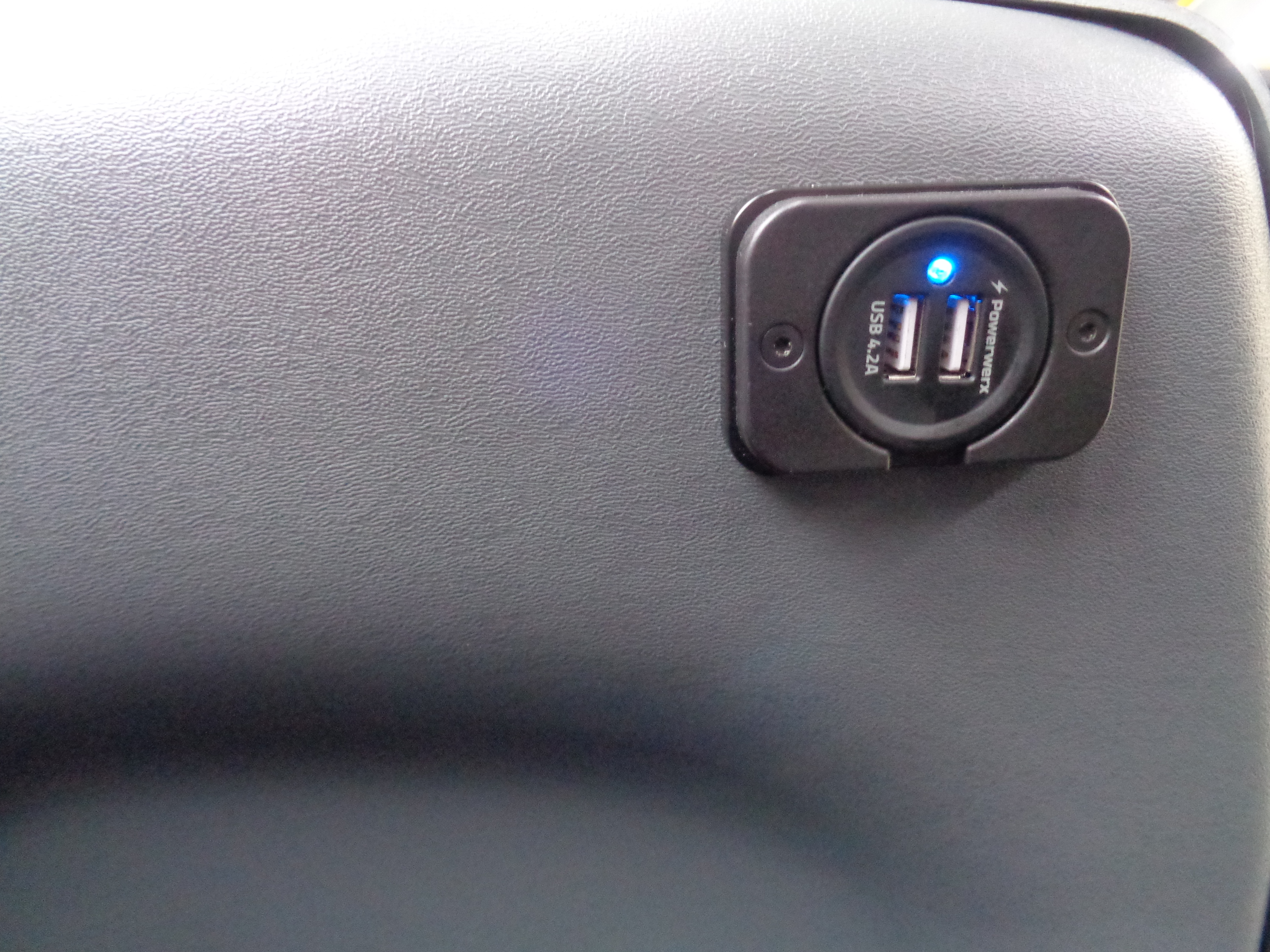 A USB charging socket on the back of a forward-facing seat in an MTA-operated New Flyer XD60 bus. The USB chargers are part of a new fleet initiative introduced in 2016, in addition to on-board Wi-Fi. This bus is from the Casey Stengel Depot, operating on Q44 Select Bus Service at Merrick Boulevard and Archer Avenue in Jamaica, Queens.